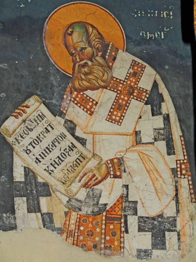 Fresco of St. Athanasios the Great, lower register of sanctuary in Church of the Theotokos Peribleptos in Ohrid, Macedonia